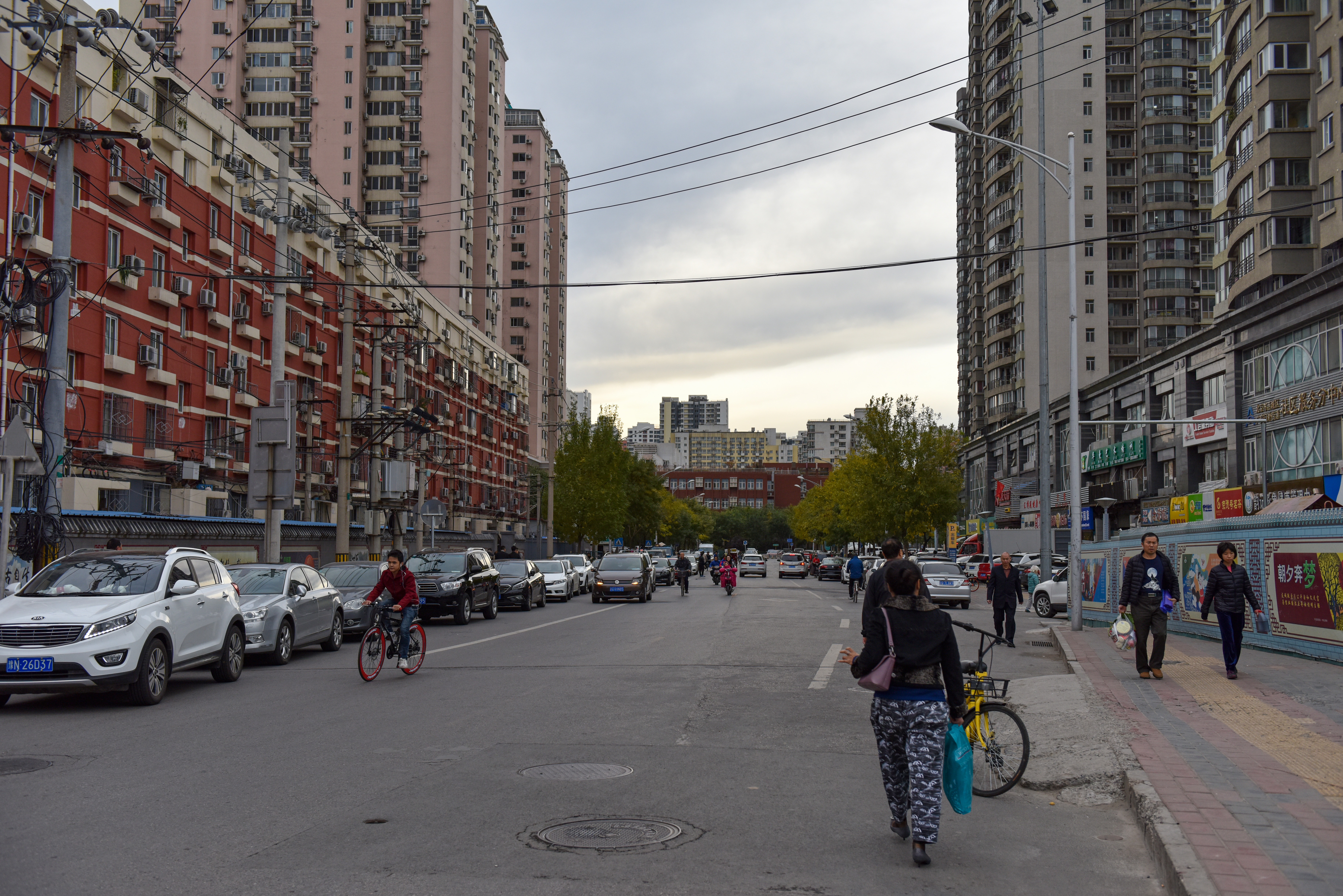 In fact, a 7-11 is just at the crossroads of Shoupakou West St.